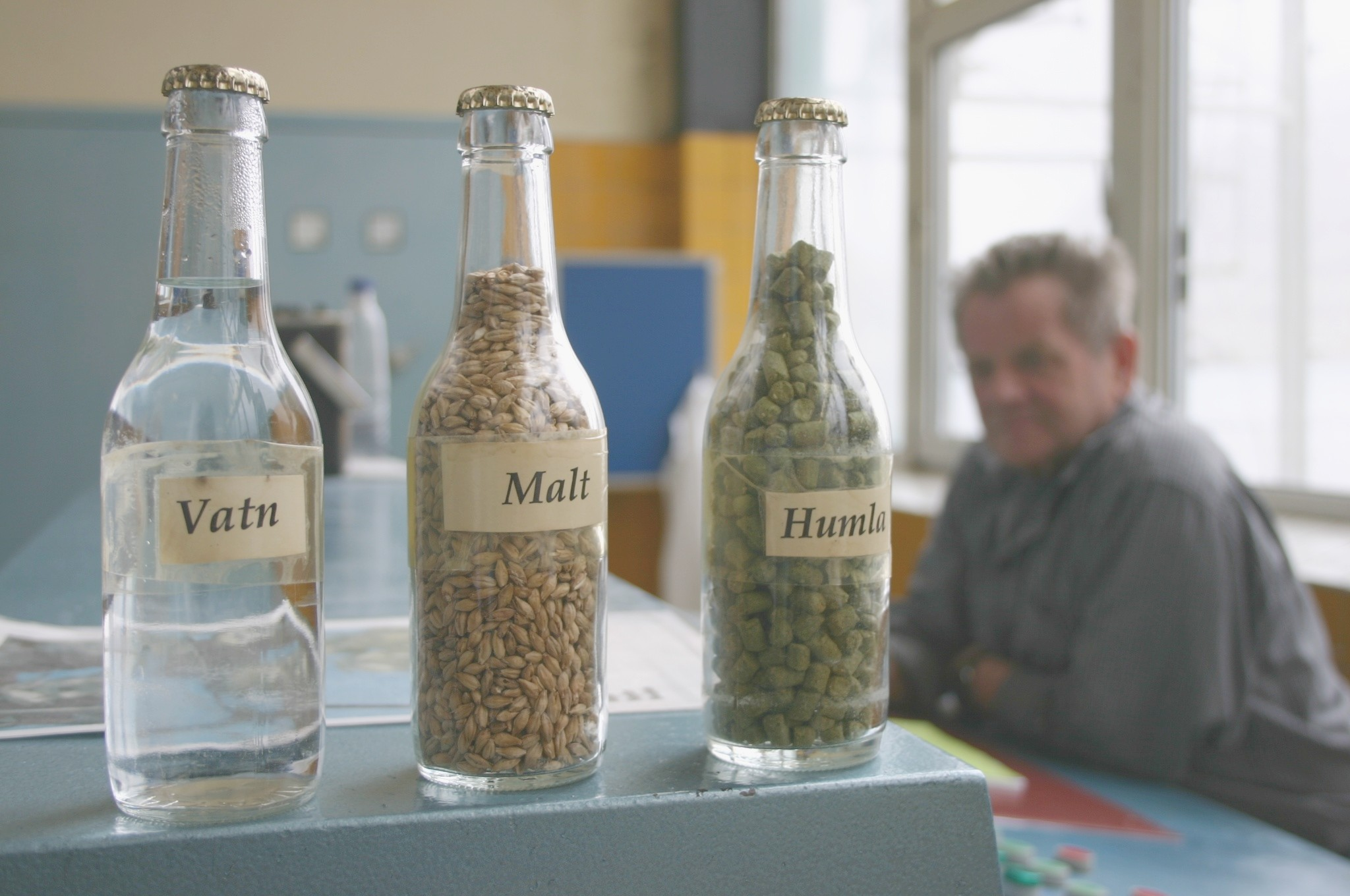 Ingredents.of.beer, water, malt and hop